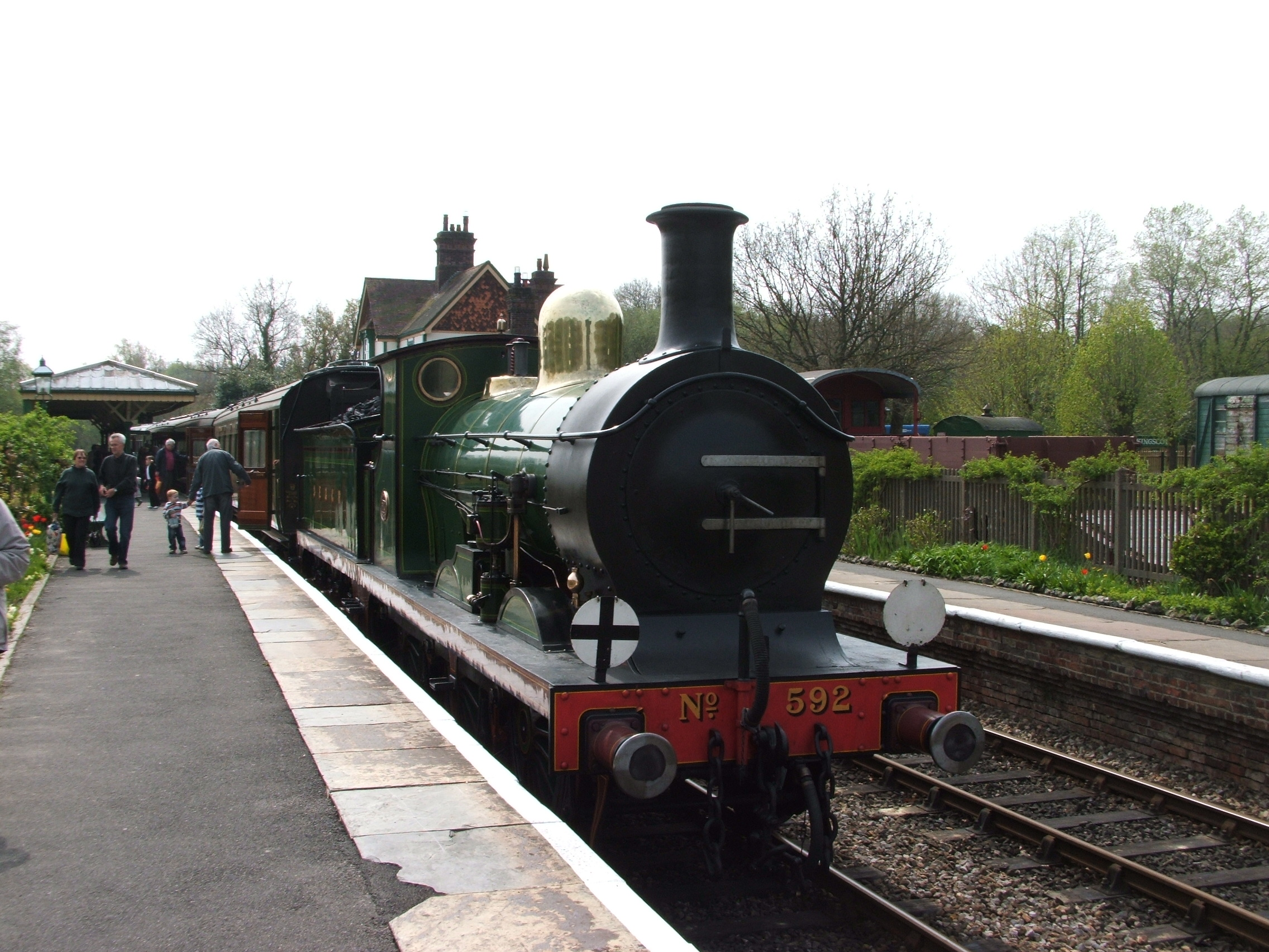 SECR C Class no. 592 at Kingscote station.